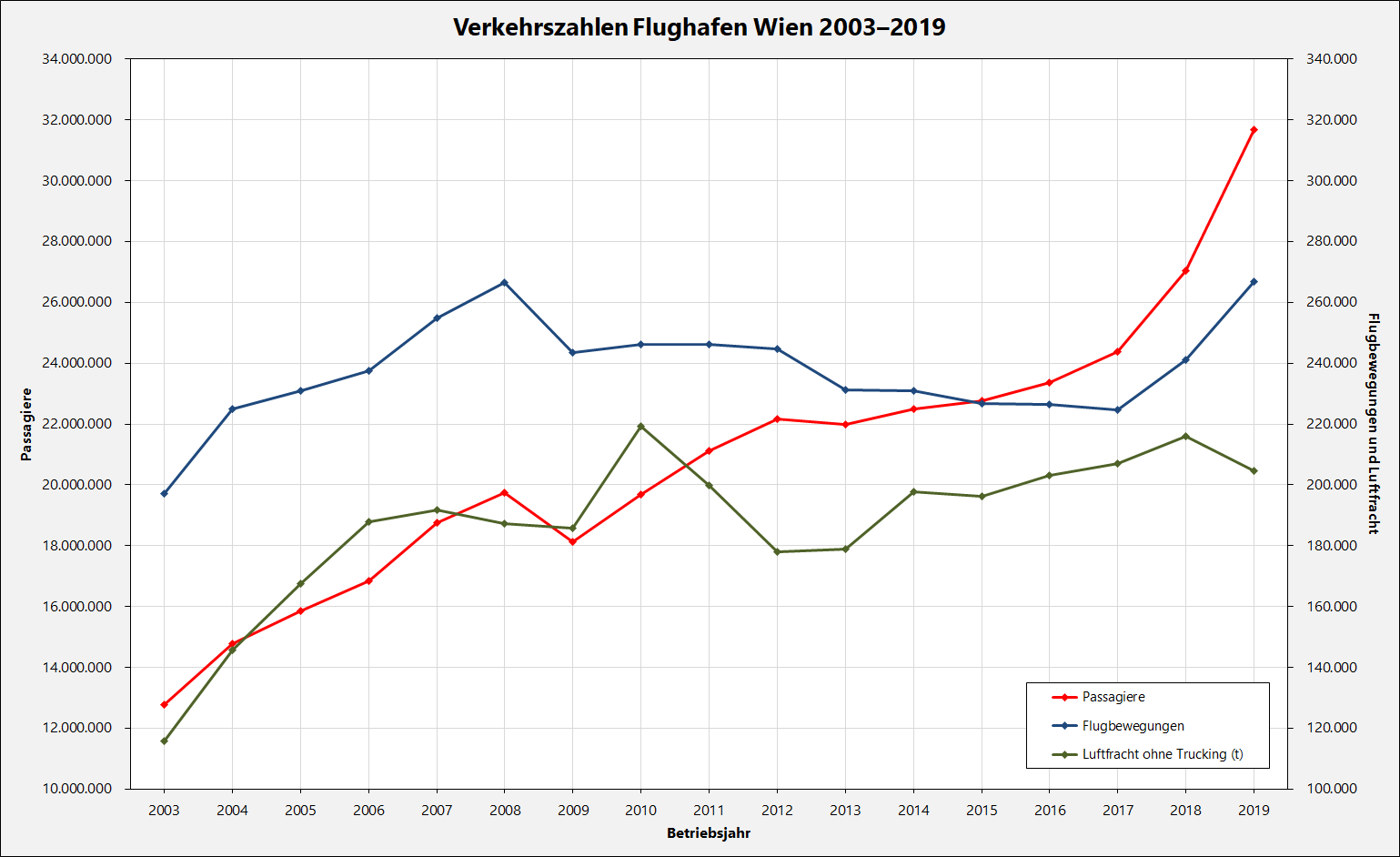 The datas of the Vienna International Airport since 2003.